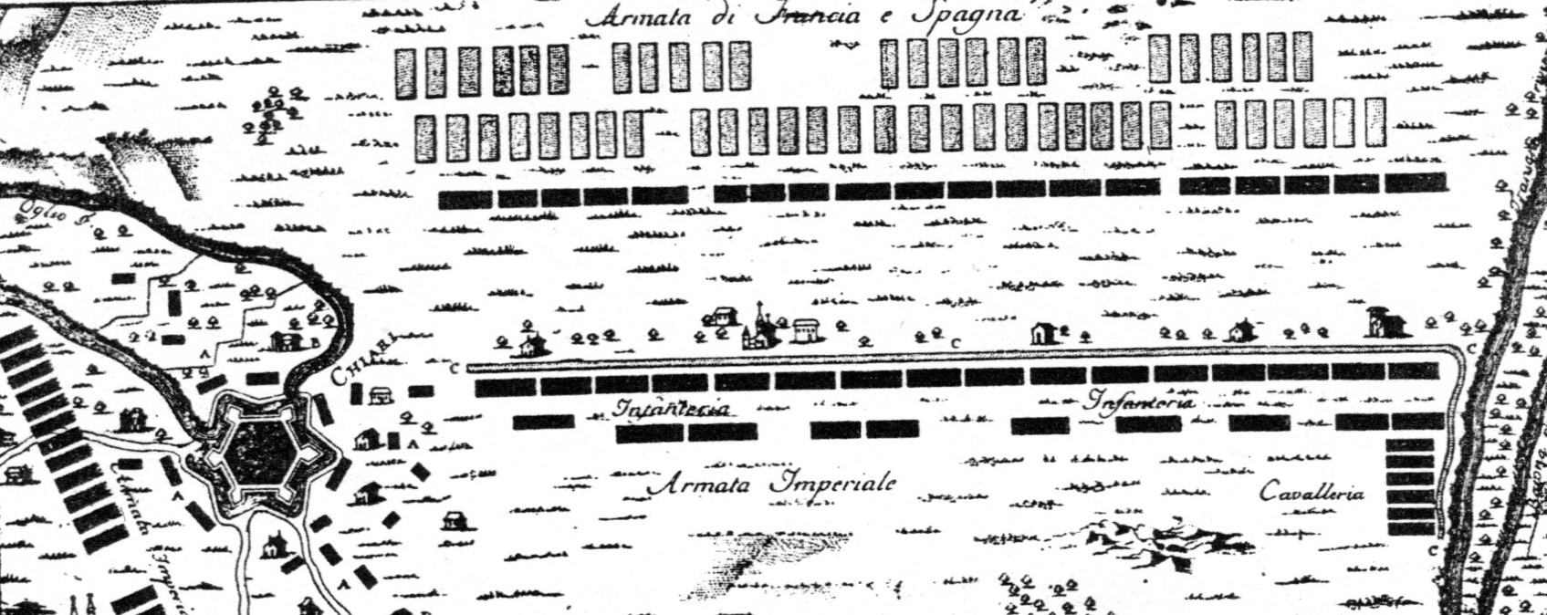 An old print depicting the situation before the battle of Chiari, 1701 (scanned)